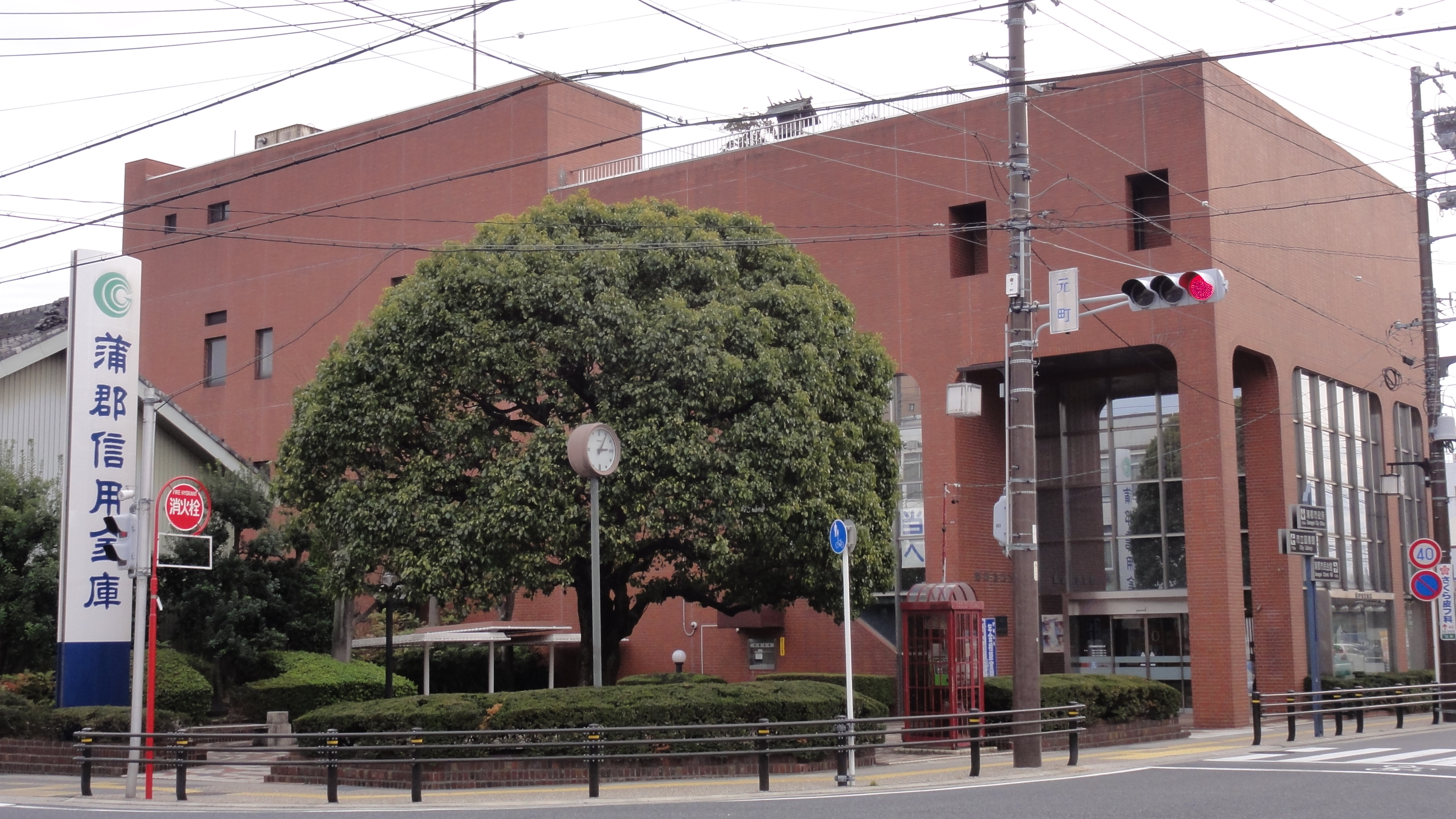 Gamagori shinkin bank(Head office),Aichi prefecture, Japan